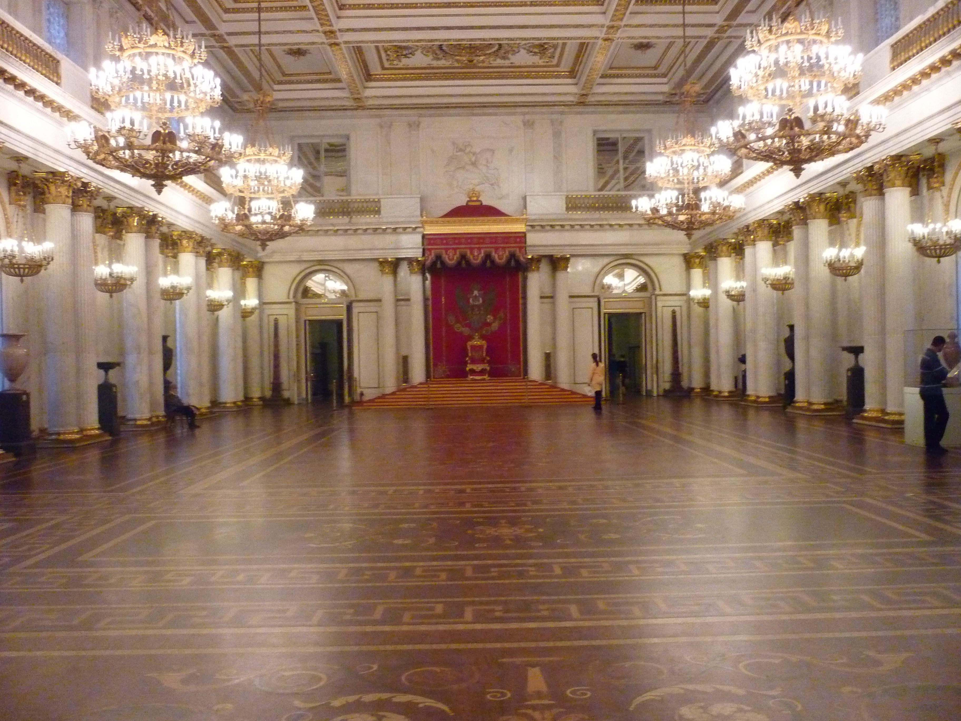 Георгиевский зал в Зимнем дворце